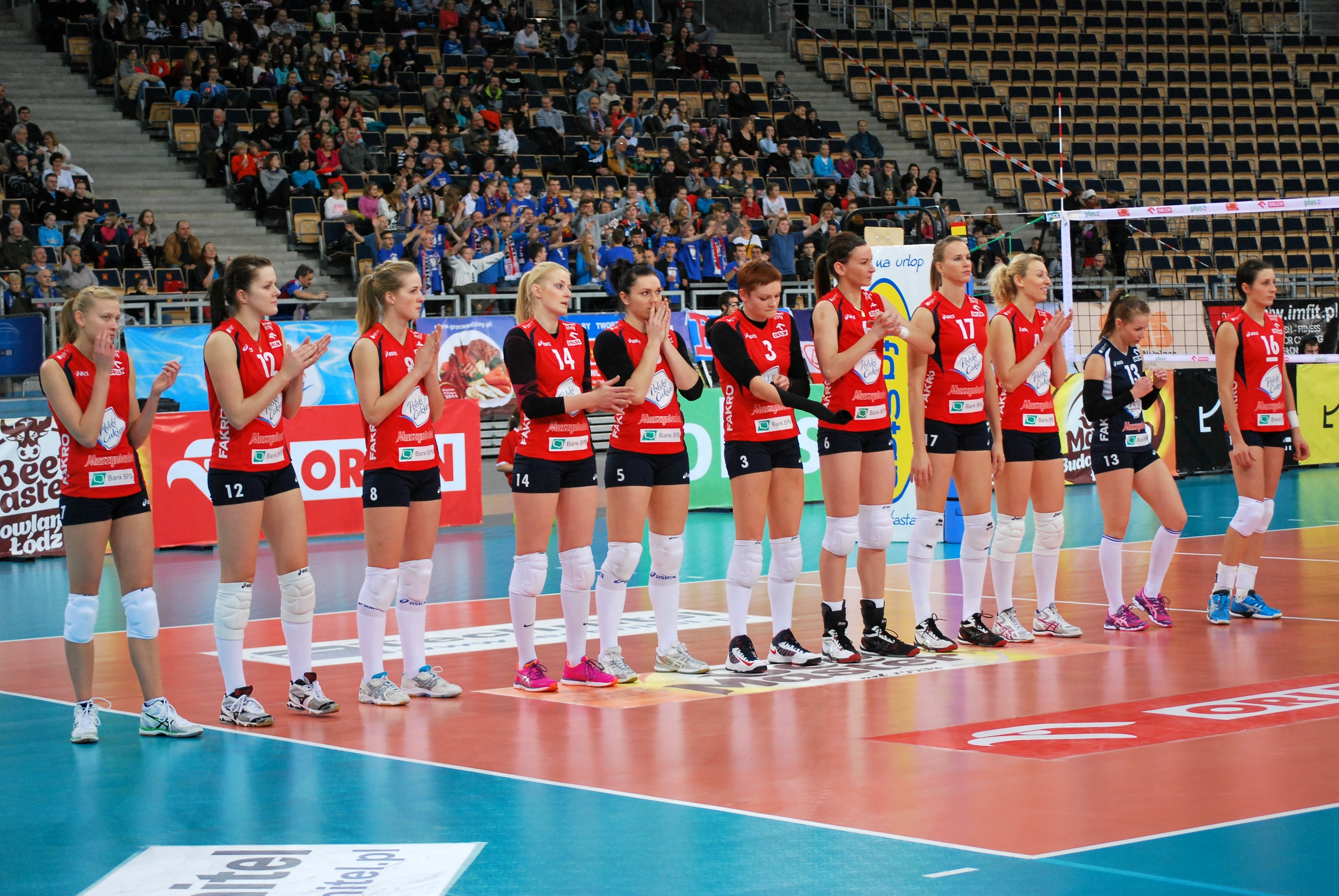 MKS Muszynianka Muszyna 2013-14